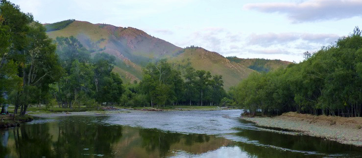 Terelj river in Mongolia.